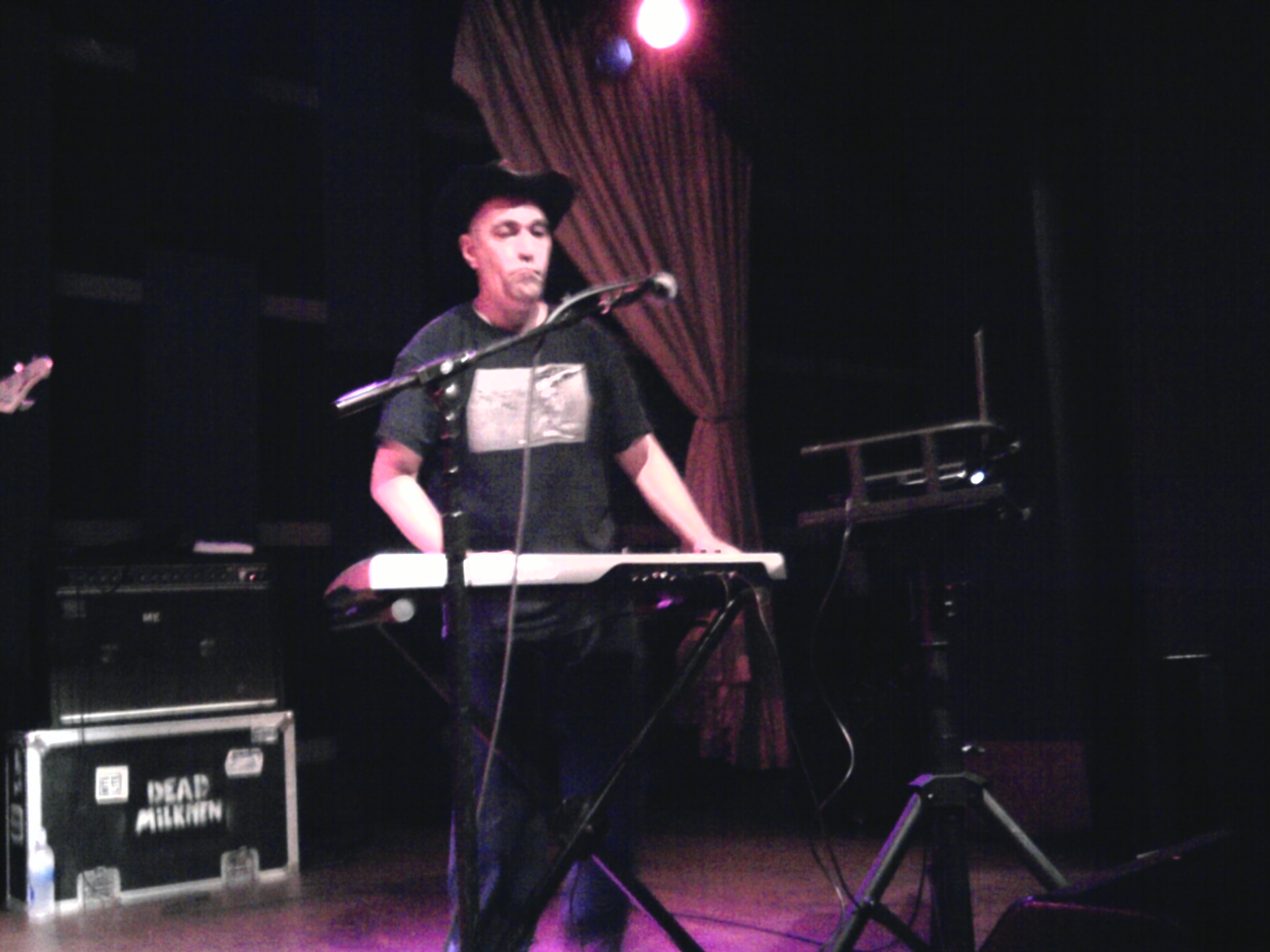 Dead Milkmen live at World Cafe live, Philadelphia, 9/24/10